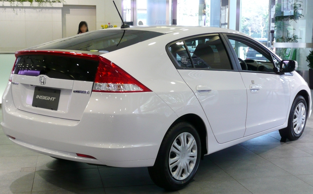 Second generation Honda Insight.